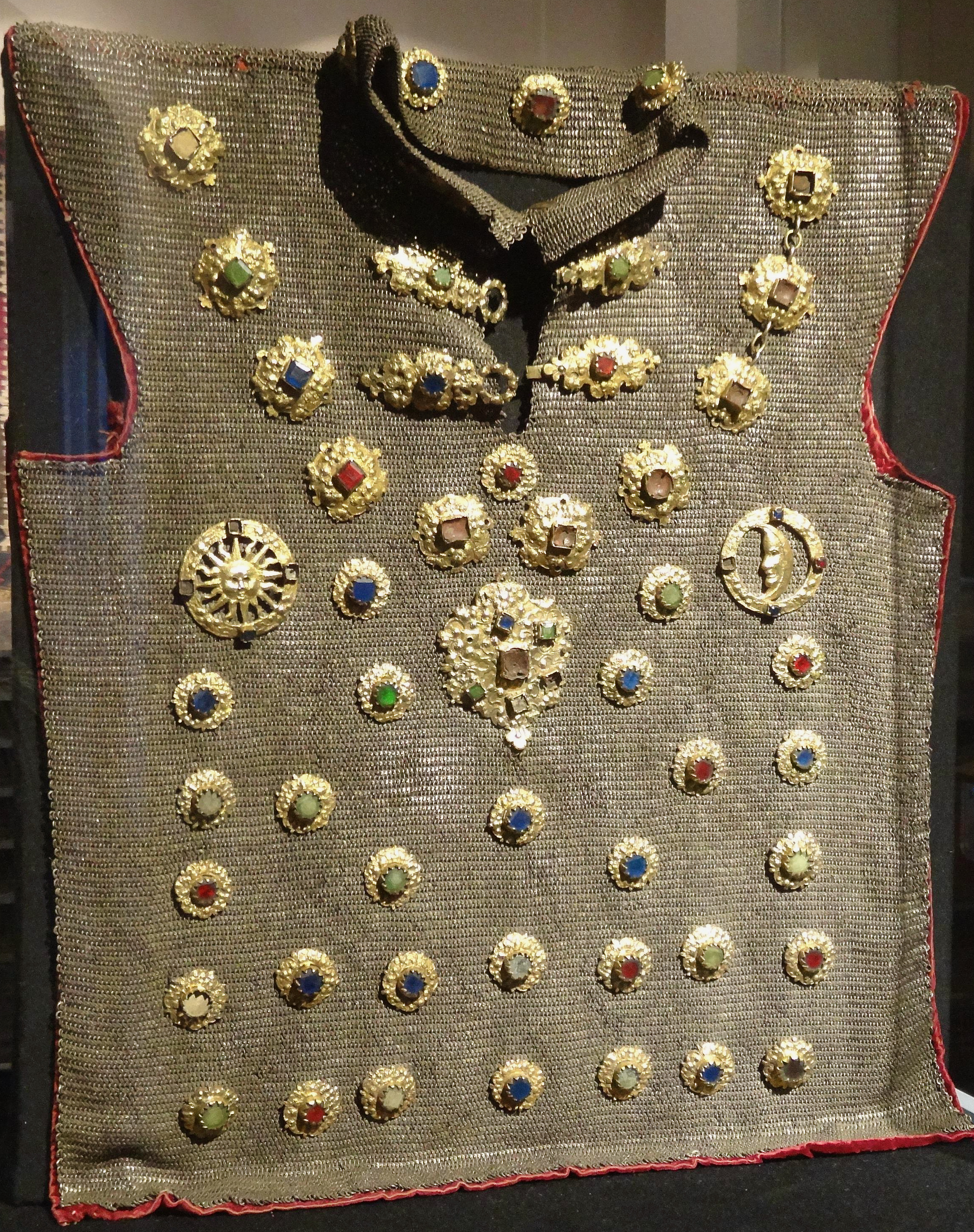 Alexander III of Imereti's mail shirt with thanks to the National Museum of Georgia for allowing photography